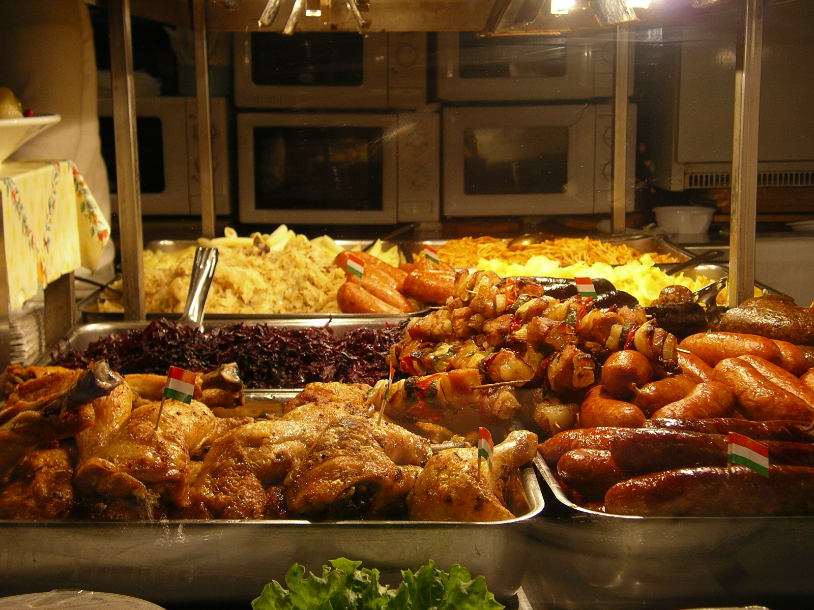 Hungarian cuisine at the market.